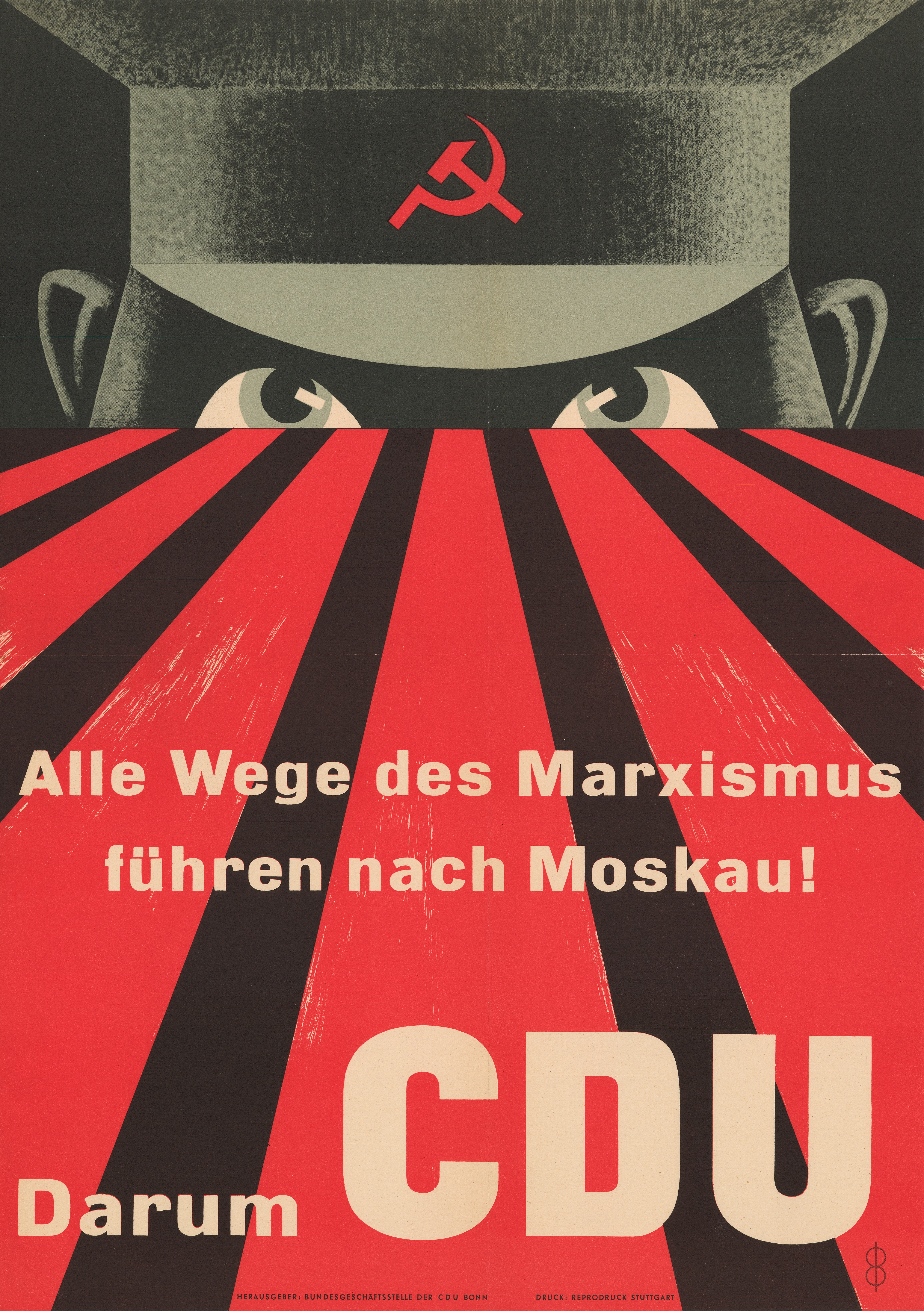 Anti-communist poster in for 1953 federal elections in Germany: "All ways of Marxism lead to Moscow! Therefore CDU"